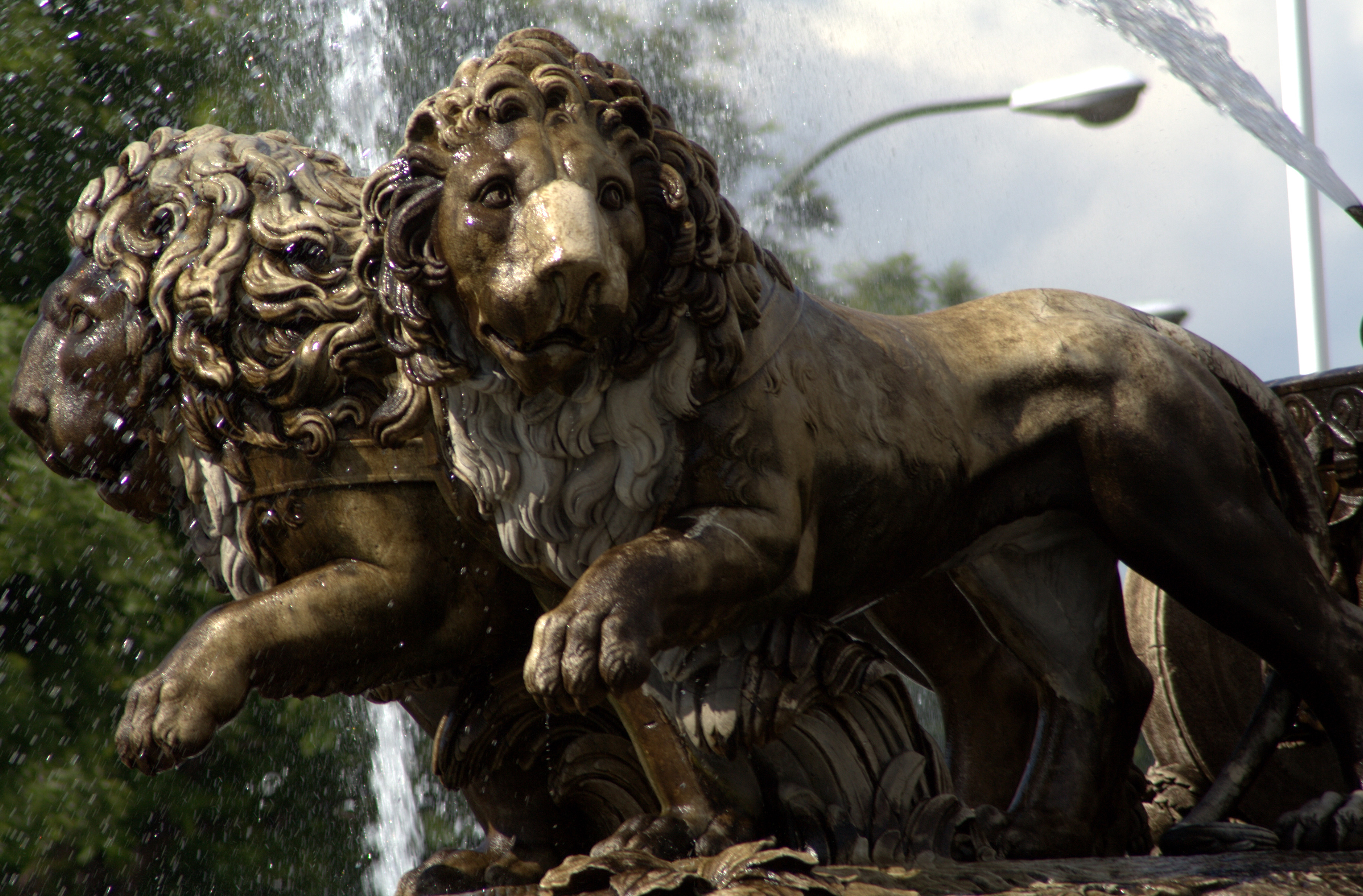 Detail of the Fountain of Cybele in Madrid (Spain). Lions sculpted by Robert Michel.